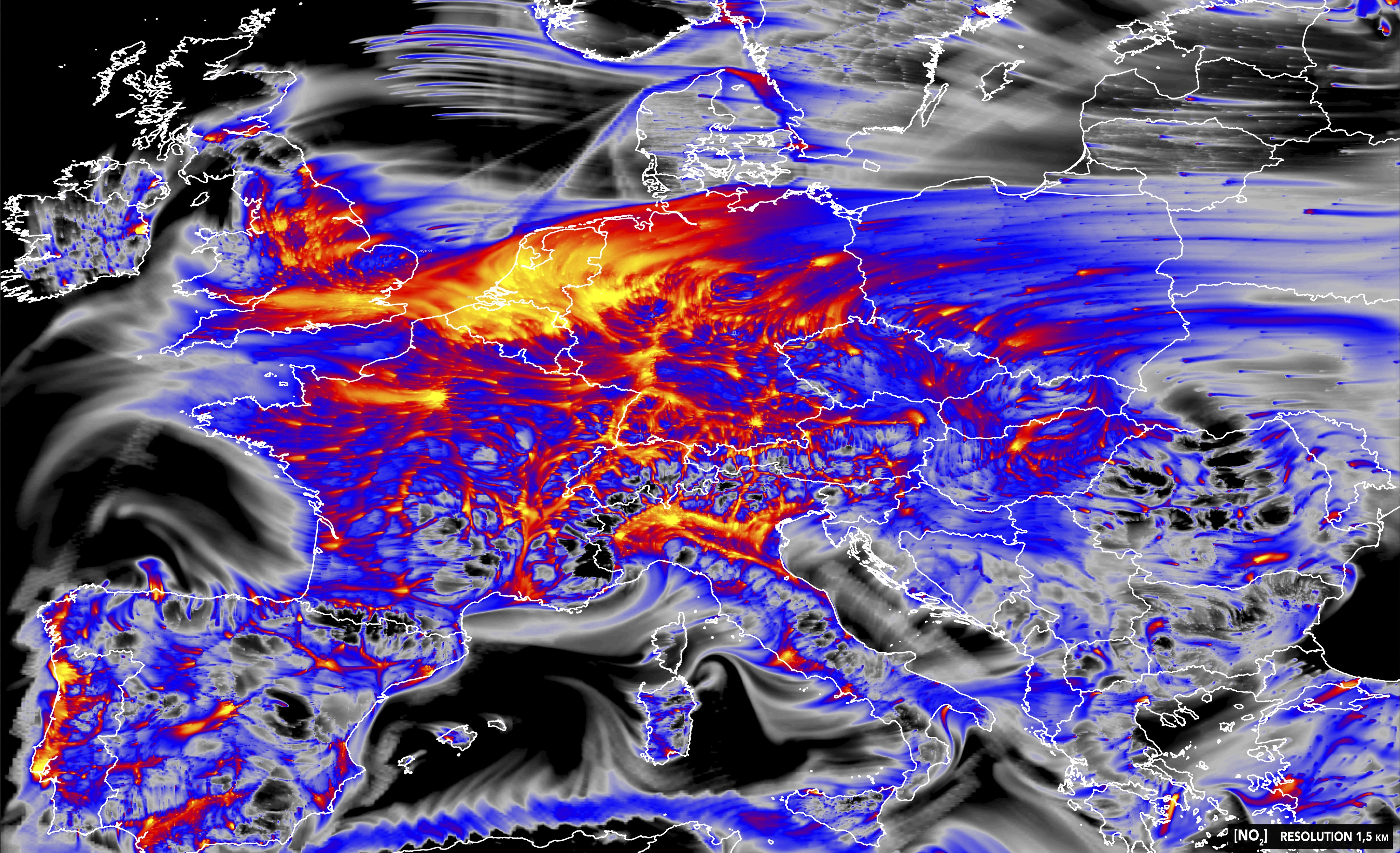 In order to bring air pollution modelling into the era of very high performance computing, the CHIMERE model was implemented on 2000 CPUs of the 200Tflop supercompter of the French Computing Center for Research and Technology to perform the first pan-European air quality simulation at approximately 2km resolution. Reference: Colette, A., Bessagnet, B., Meleux, F., Terrenoire, E., and Rouïl, L.: Frontiers in air quality modelling, Geosci. Model Dev., 7, 203-210, 2014.